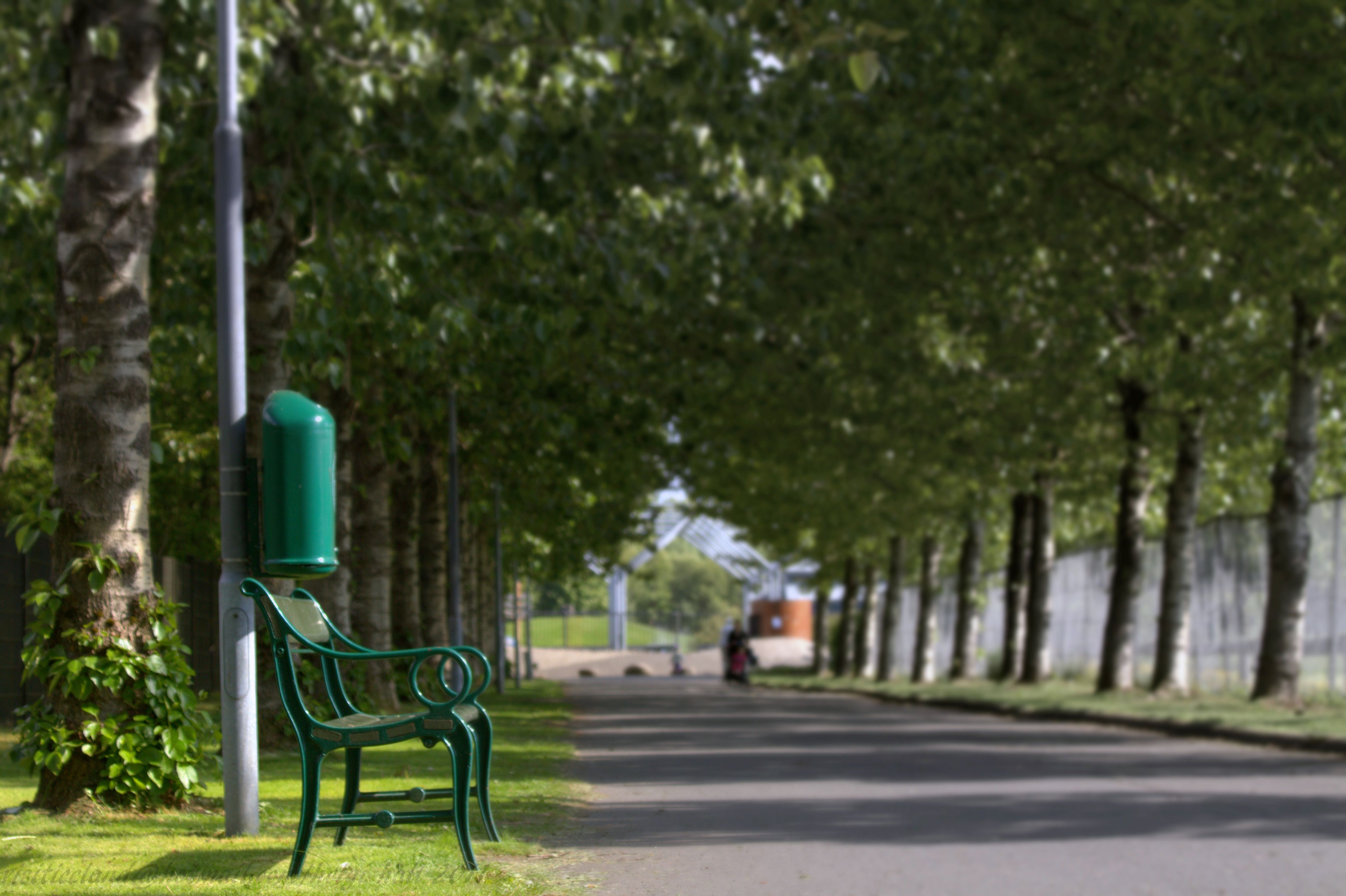 It is healthy to run or walk, show yourself and see others. The starting points of the tracks are by the swimming pool and the ice skating hall. Runners often use the facilities of the ice skating hall to change clothes during summer. The tracks are two to ten km long and clearly marked, which makes it easy to check your results and improvement every time you jog. Everyone can set his or her pace according to their physical fitness.